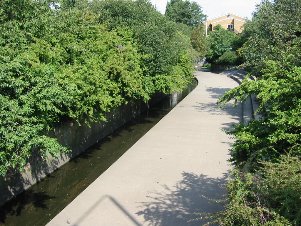 Photograph of River Rom north of Roneo Corner